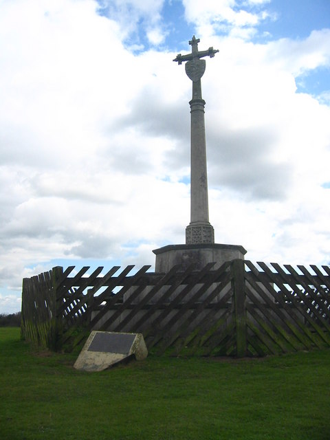 Katherine's Cross Katherine’s Cross was erected in the 18th century to commemorate the time that Katherine of Aragon, first wife of King Henry VIII, was kept under house arrest at Ampthill Castle in 1533. This is the site of Ampthill Castle, and also where the ‘Golden Hare’ was buried as detailed in Kit Williams book ‘Masquerade’